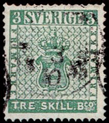 Stamp of Sweden № 1, 1855